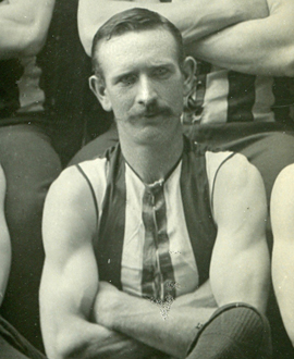 Photograph of Bill O'Brien in 1901.